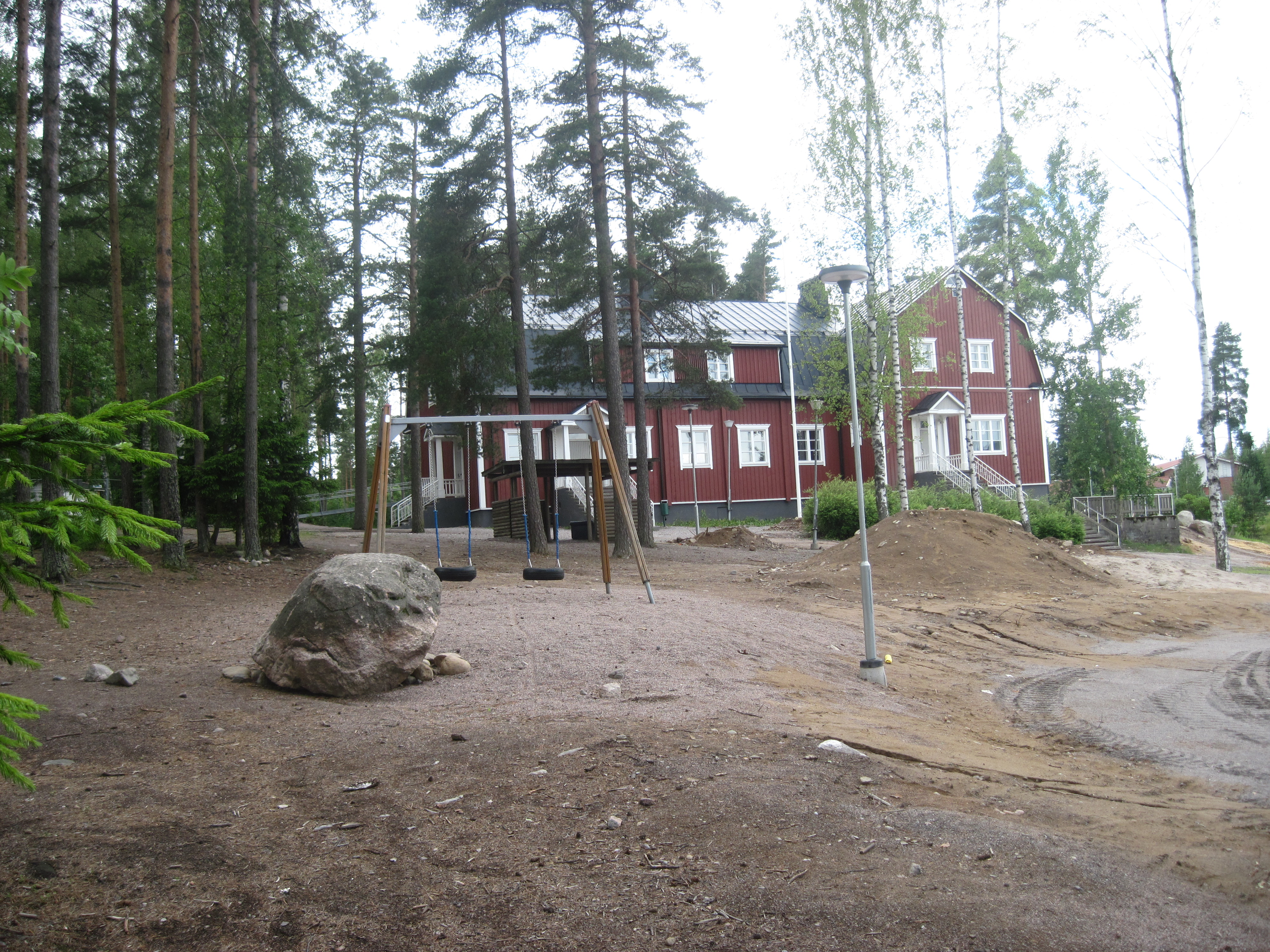 Old school building at Paijala, Tuusula, Finland